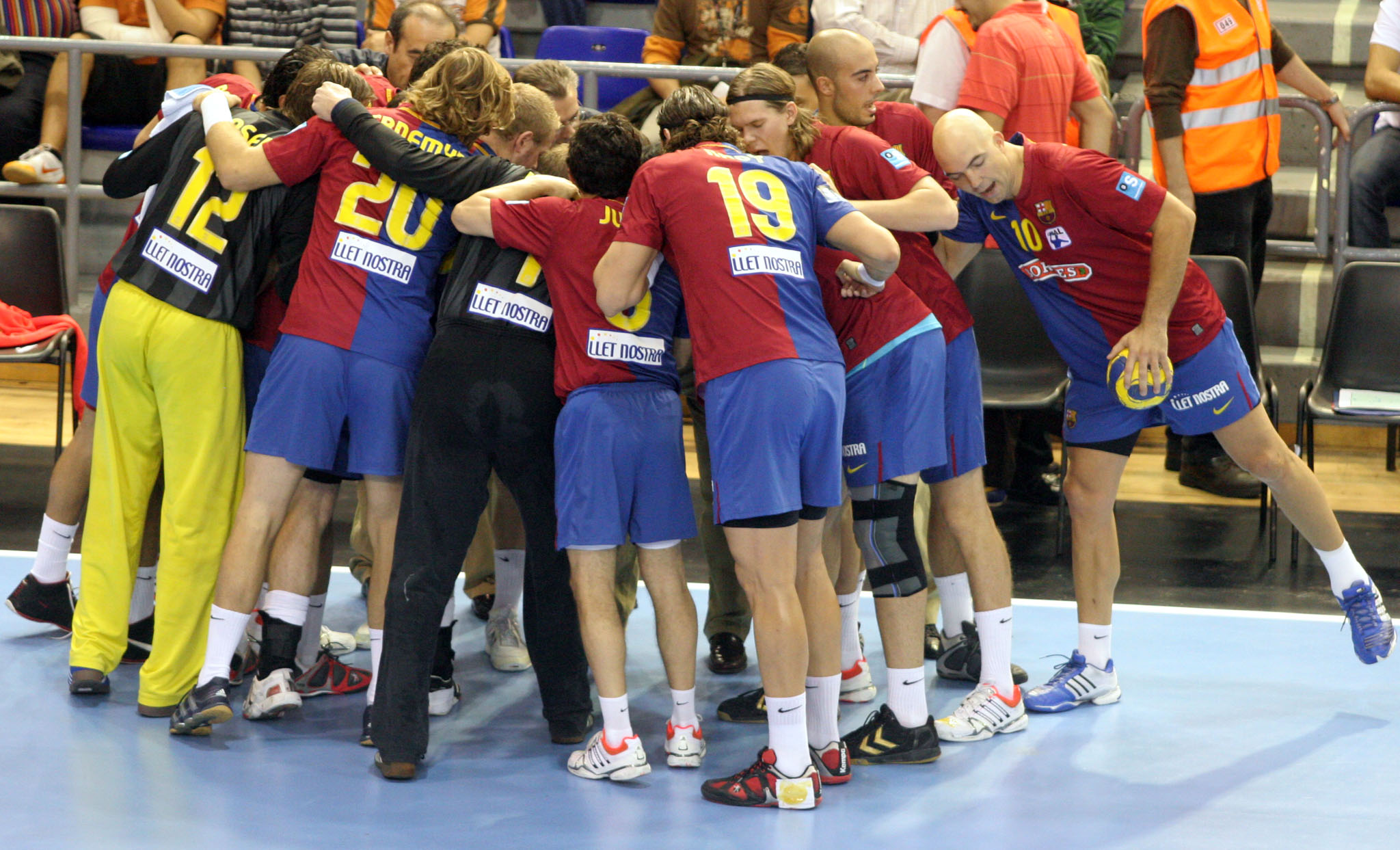 The Spanish Team from FC Barcelona on October 12th, 2008 in Barcelona (Palau Blaugrana) prior the Champions League game FC Barcelona Borges - H.C. Metalurg Skopje